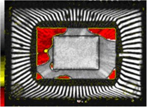 Sonoscan C-Sam Generated Image